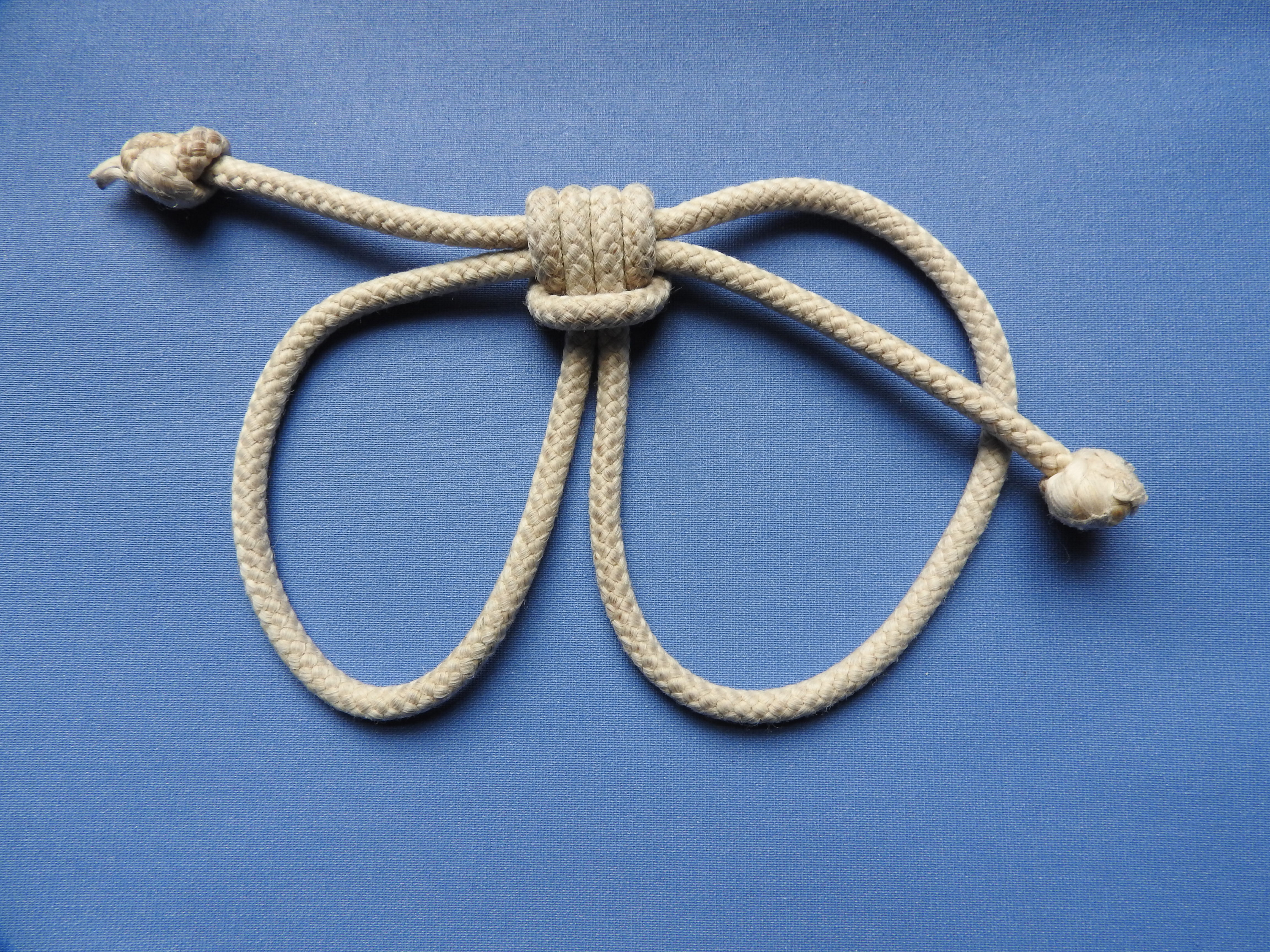 Bosun's handcuff an application of the Prusik knot